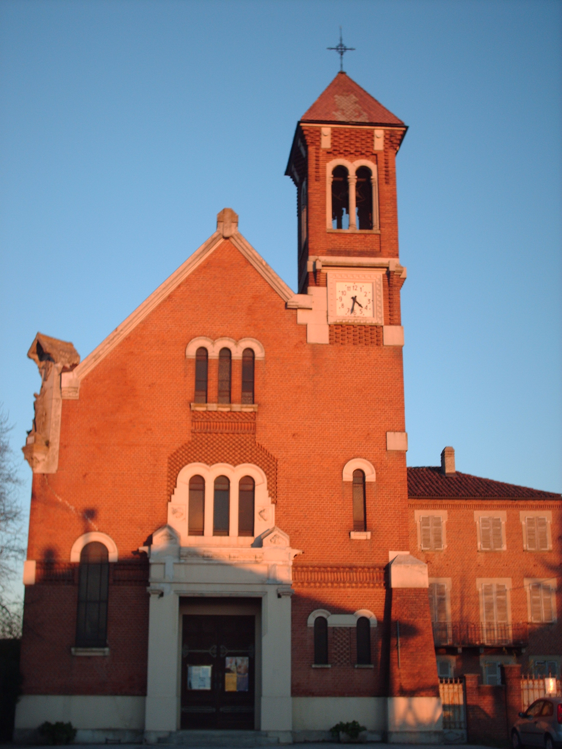 Church of Saints Vito, Modesto and Crescienzia in Crivelle, a civil parish of Buttigliera d'Asti (AT), Piedmont, Italy